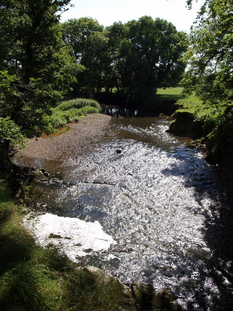 River Lew below Hatherleigh The Lew impinges on a rocky outcrop southwest of Strawbridge. This view, with the river approaching the camera, is from Hatherleigh Footpath 1, which teeters above a river cliff.